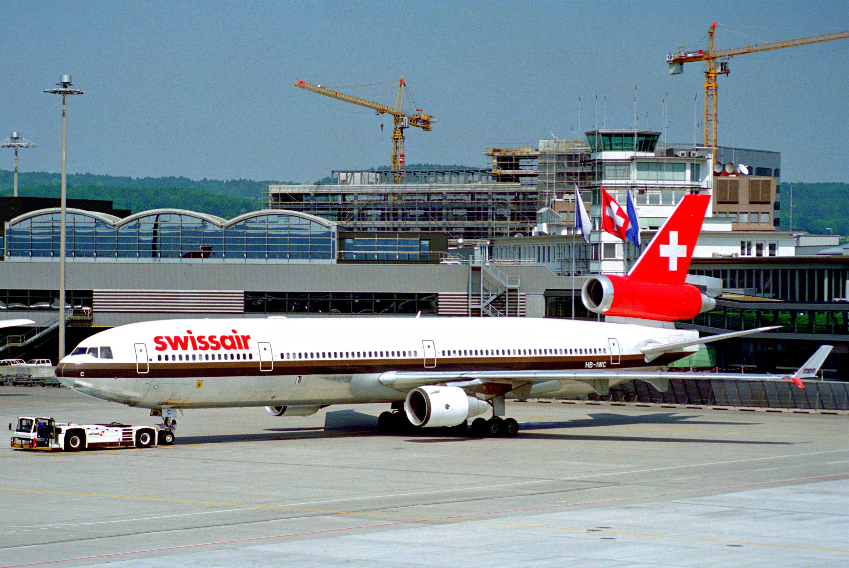 Swissair MD-11; HB-IWC@ZRH;25.05.1995